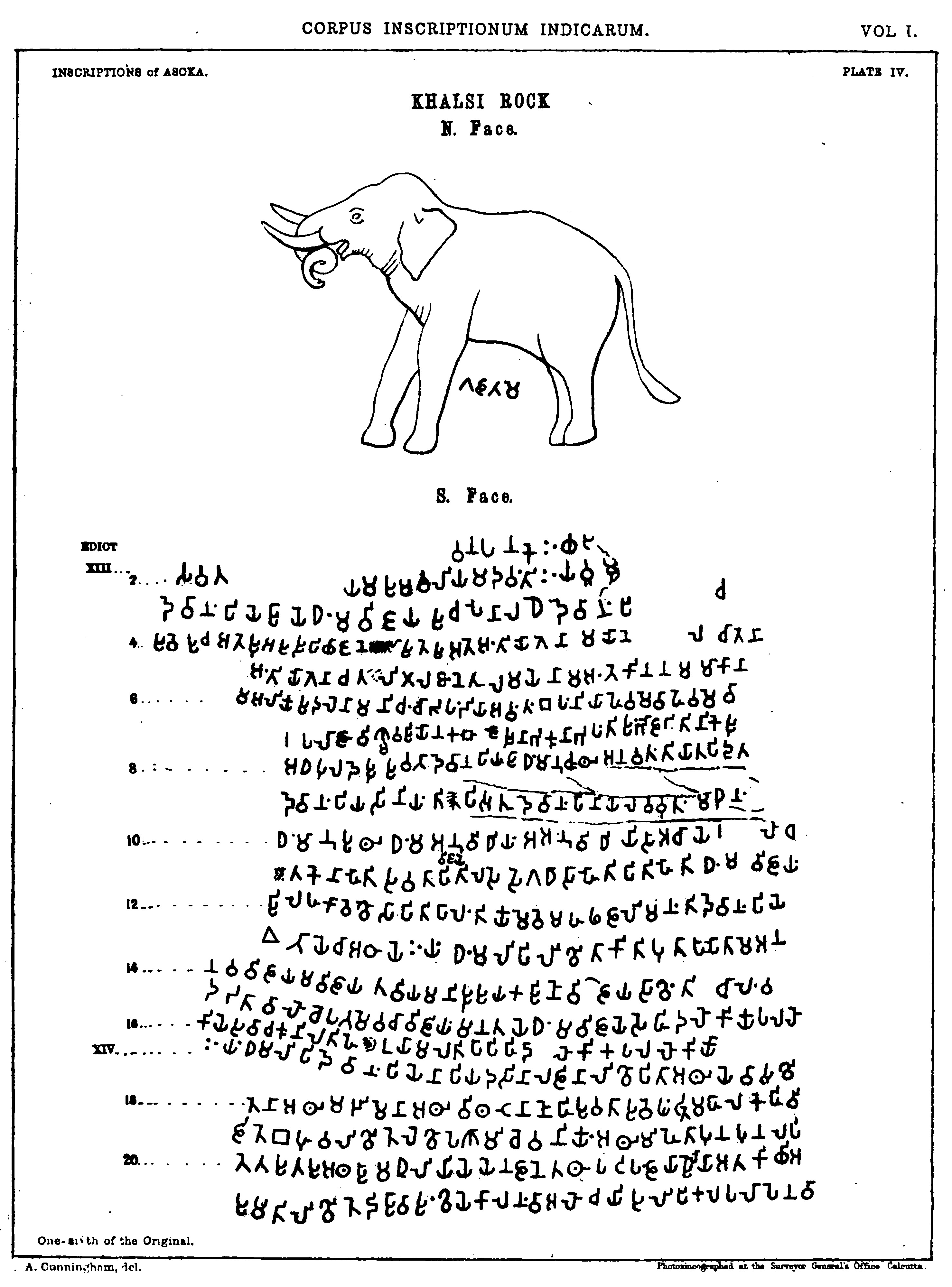 Ashoka's Rock Edict at Kalsi, Distt.-Dehradun, Uttarakhand.